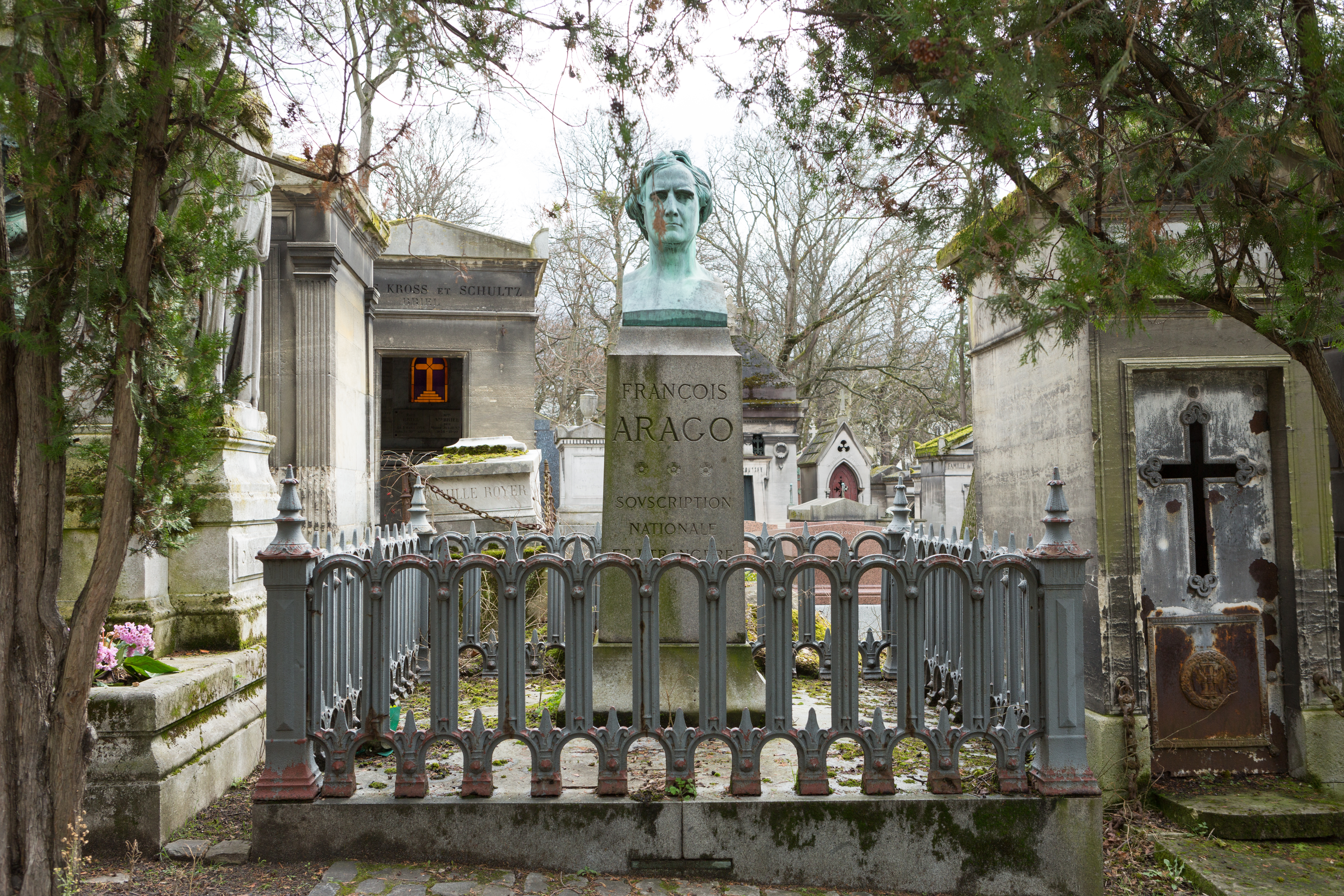 Stone surmounted by a bronze Herma, surrounded by a wrought iron fence.